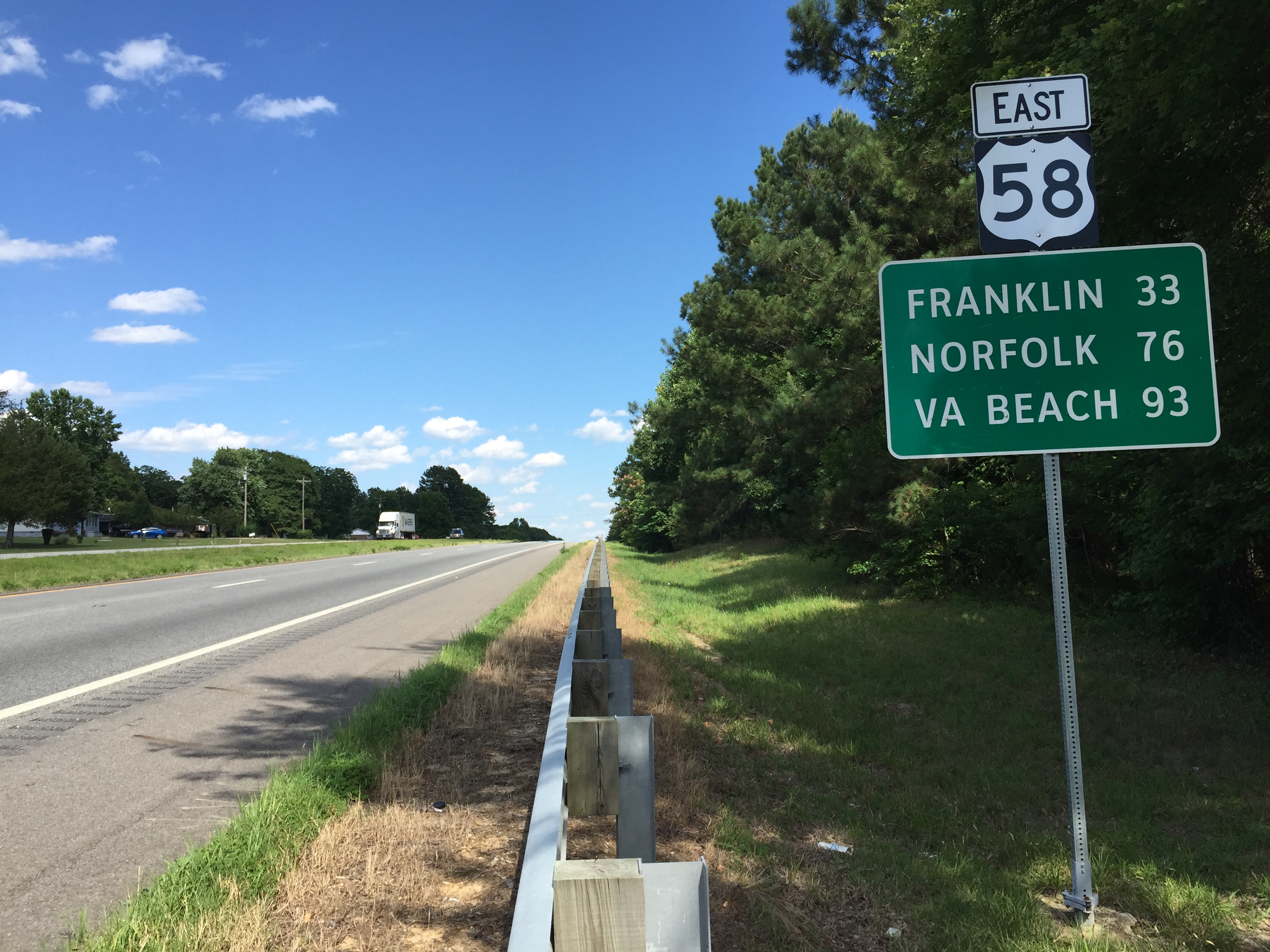 View east along U.S. Route 58 (Courtland Road) at James River Junction (Virginia State Secondary Route 623) just east of Emporia in eastern Greensville County, Virginia